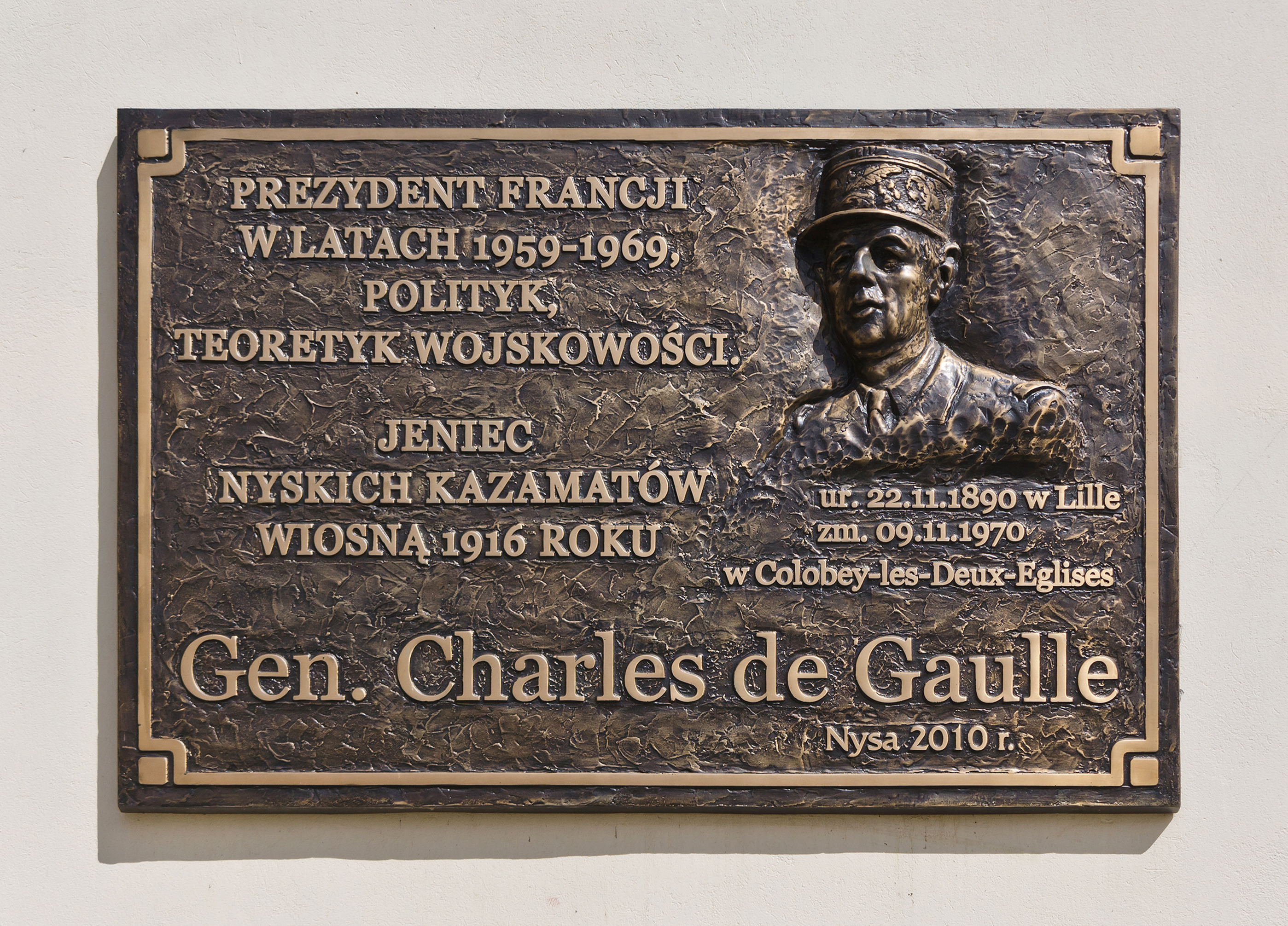 St. Jadwiga Bastion in Nysa, Charles de Gaulle's plaque